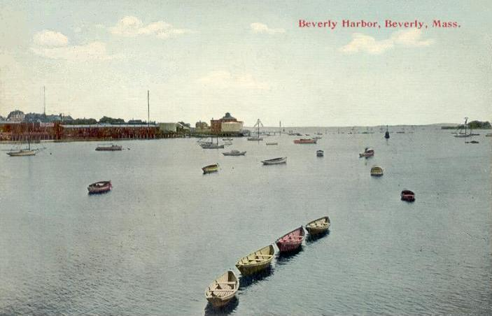 Beverly Harbor, Beverly, MA; from a c. 1912 postcard. Category:Images of Massachusetts